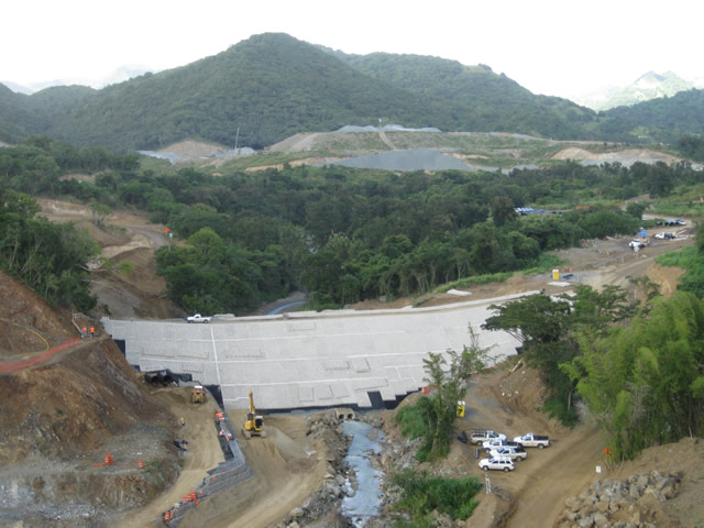 Cofferdam at the Portugues Dam construction site.